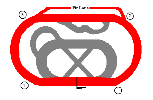 Red = 1/2 mile oval, Grey = 1/4 mile oval, road course and Figure 8 track